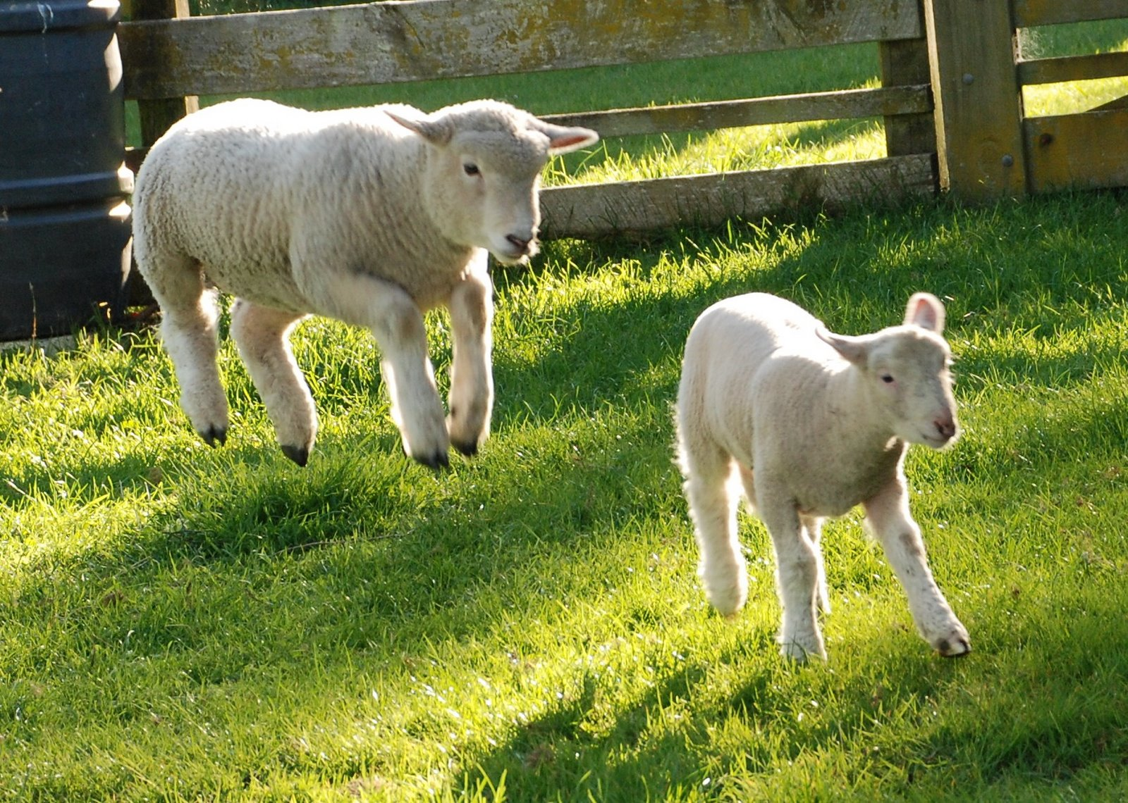 Lambs in New Zealand stotting.